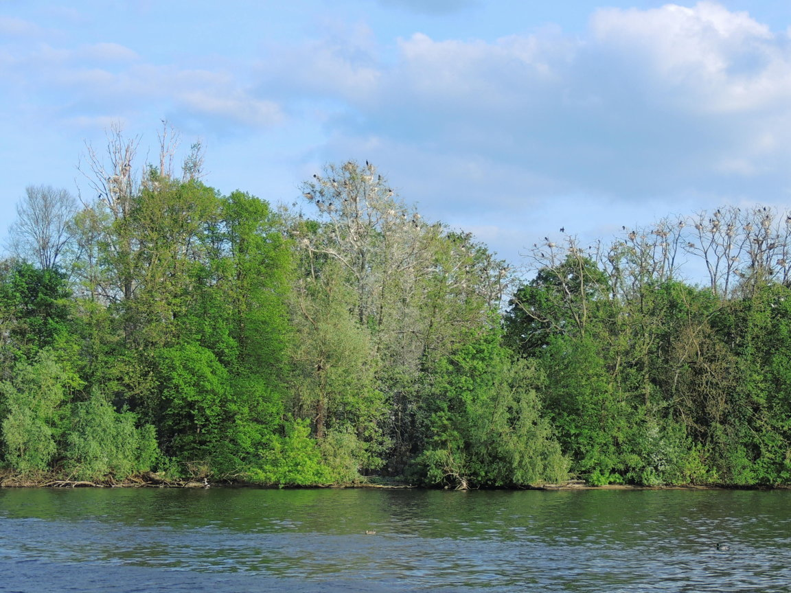 View of the island of Imchen.